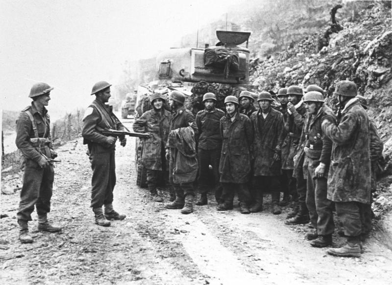 M/C: Battle for Cassino and Monastry Hill The battle for Cassino and Monastry Hill, which began on the 15.3.1944 when medium and heavy bombers rainet bombe on objectiven for thr... and a half hours, was continued by the greatest artillery barrage so far laid in the Italian theatre, to cover the advance of the Allied tanks and infantry as they entered the town. Fires fighting continu... in Cassino where New Zealanders are steadily reducing an... strongpointe, while troops on Monastry Hill are ..... doggedly on to their newly gained vantage points. P/C: German troops captured by the New Zealanders at Cassino being held beside a Sherman tank.